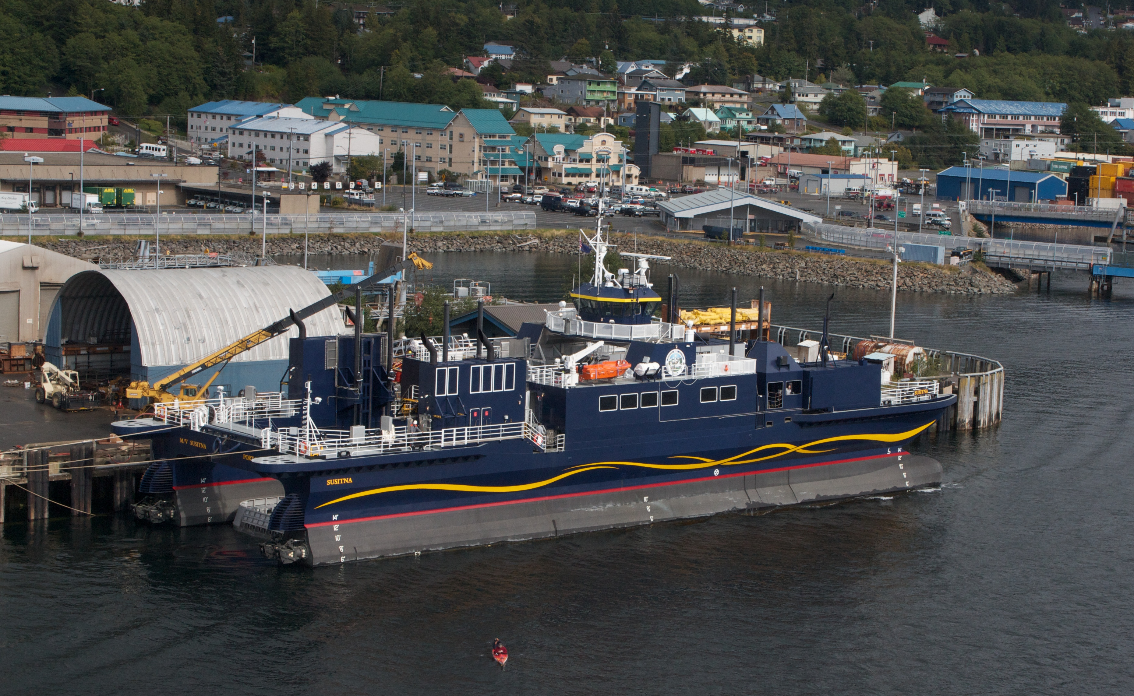 New model ferry: M/V Susitna, being outfitted in Ketchican for delivery to Anchorage. It is a catamaran ice breaking ferry